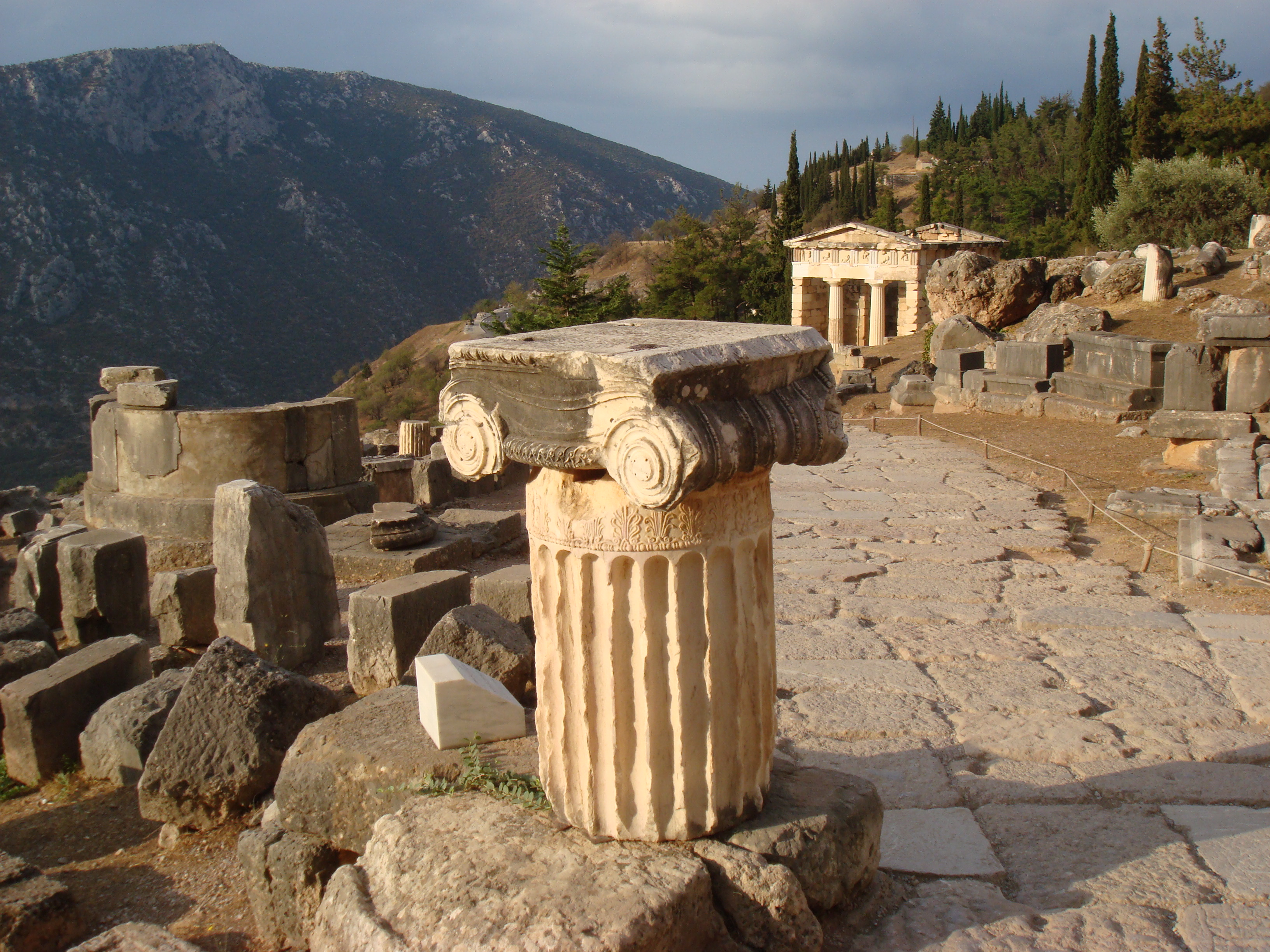 Archaeological site of Delphi, with the Treasury house of Athens in the background.